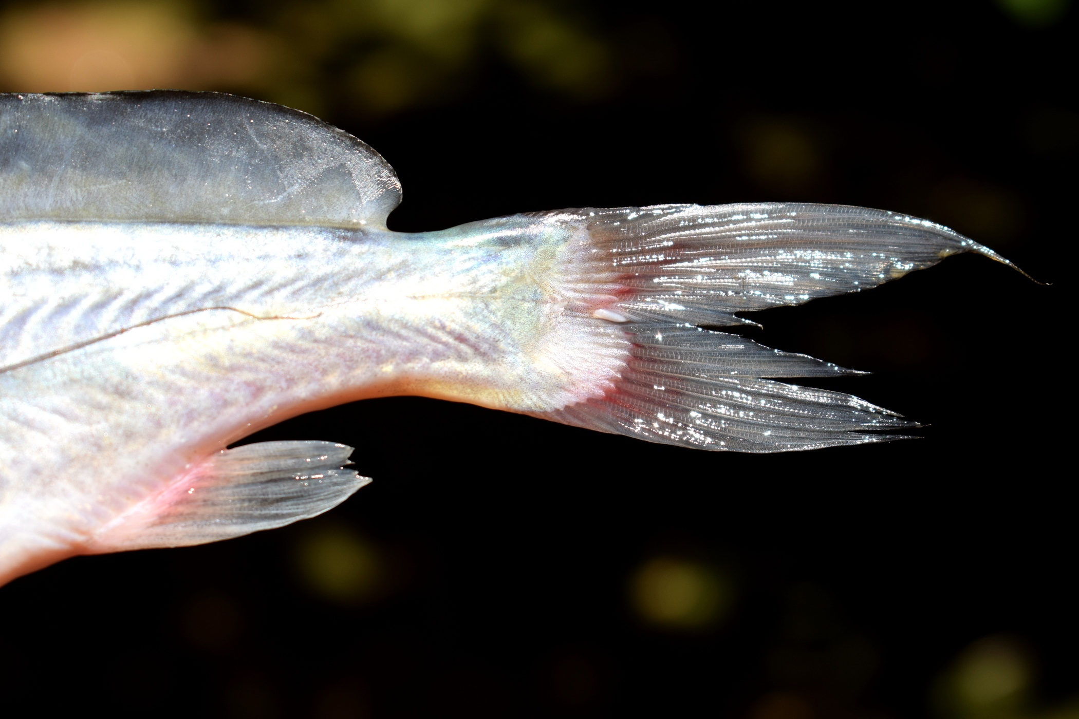 Mystus singaringan, female, 175mm SL; from Cihideung, a tributary of Cisadane River, Bogor, West Java, Indonesia. Caudal region.